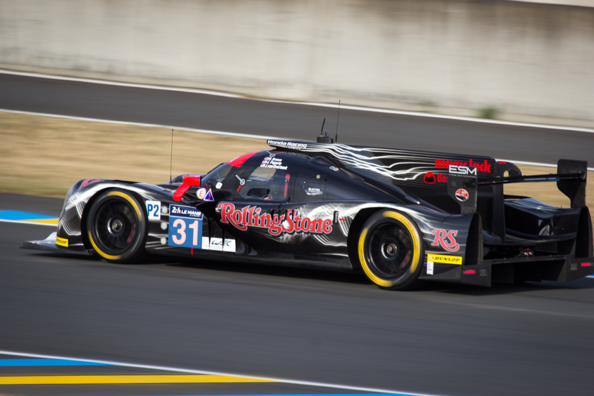 Drivers: Ed Brown, Johannes van Overbeek, Jonathan Fogarty